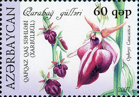 Garabagh Flowers No 801 - 60 gapik. There is “Gafgaz Khar bulbul” flower on the stamp.